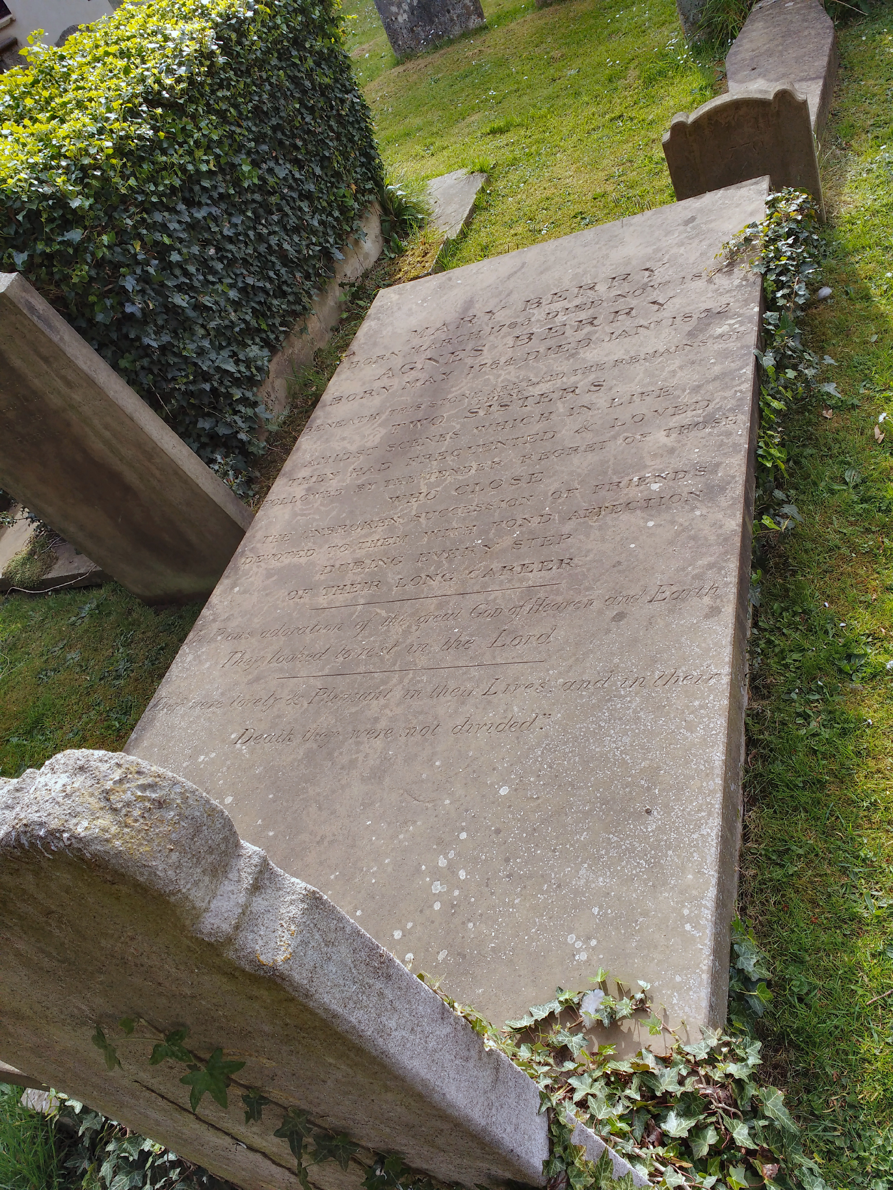 St Peter's Church, Petersham. Mary Berry (1763–1852), author and editor, and her sister Agnes Berry (1764–1852)